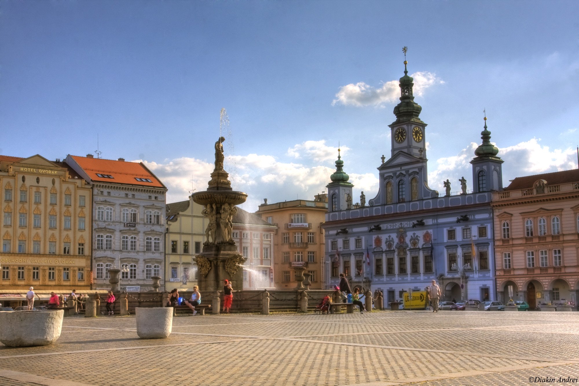 The view of Přemysl Otakar II Square with City Hall Fontane "Samson".